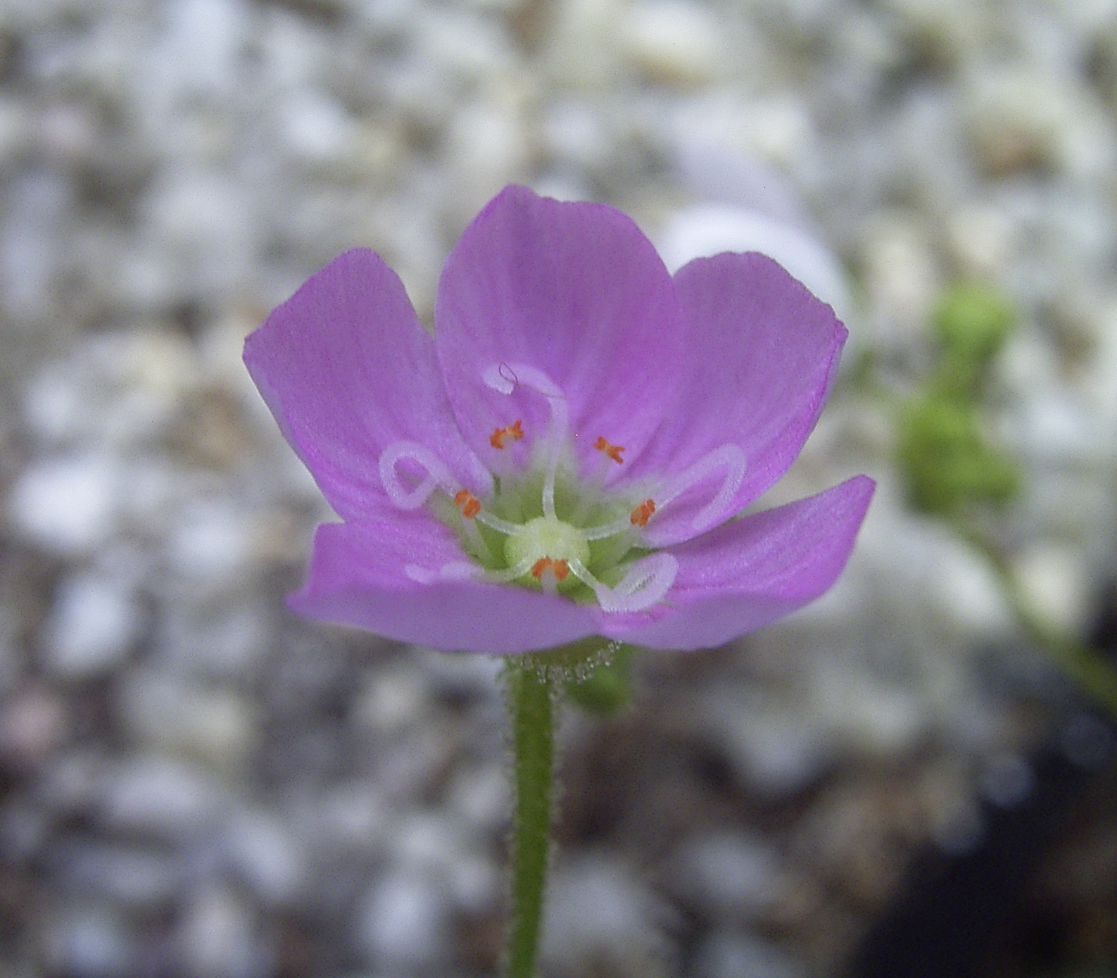 Drosera pulchella flora Author: Denis Barthel